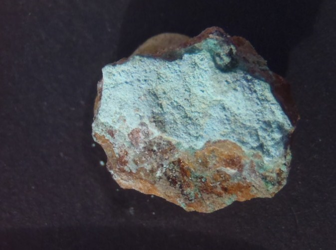 Anthonyite Dimensions: 13 mm x 12 mm x 6 mm Locality: Mexico Description: The label says only 'Mexico'; 'Villa Hermosa' is a possibility, as it is the only Mexican locality for this mineral mentioned in Mindat. Collection and photo Erik Vercammen